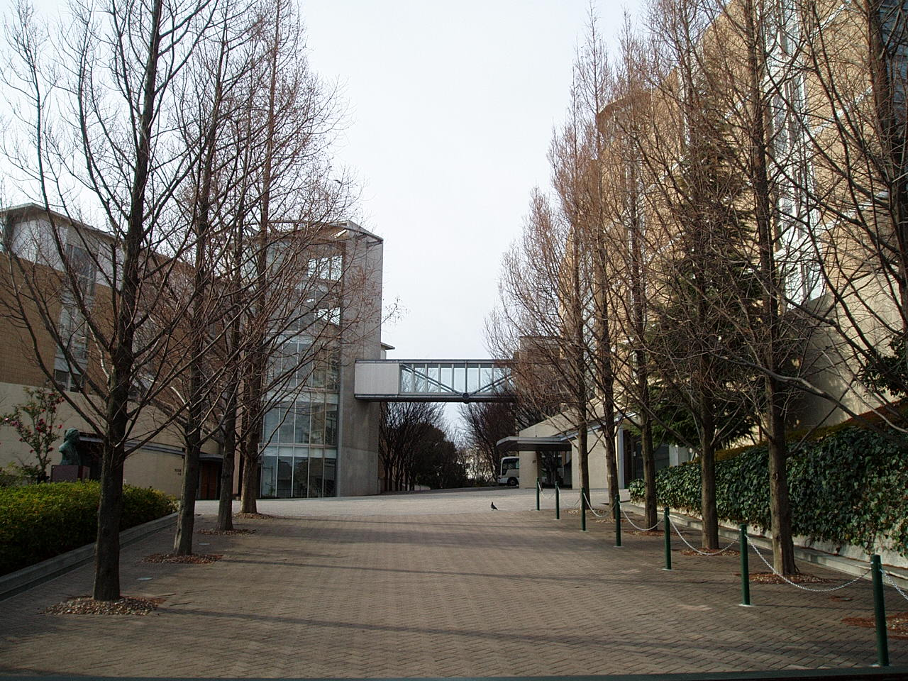 Kobe Tokiwa University located in Nagata-ku, Kobe, Hyogo Pref., Japan.